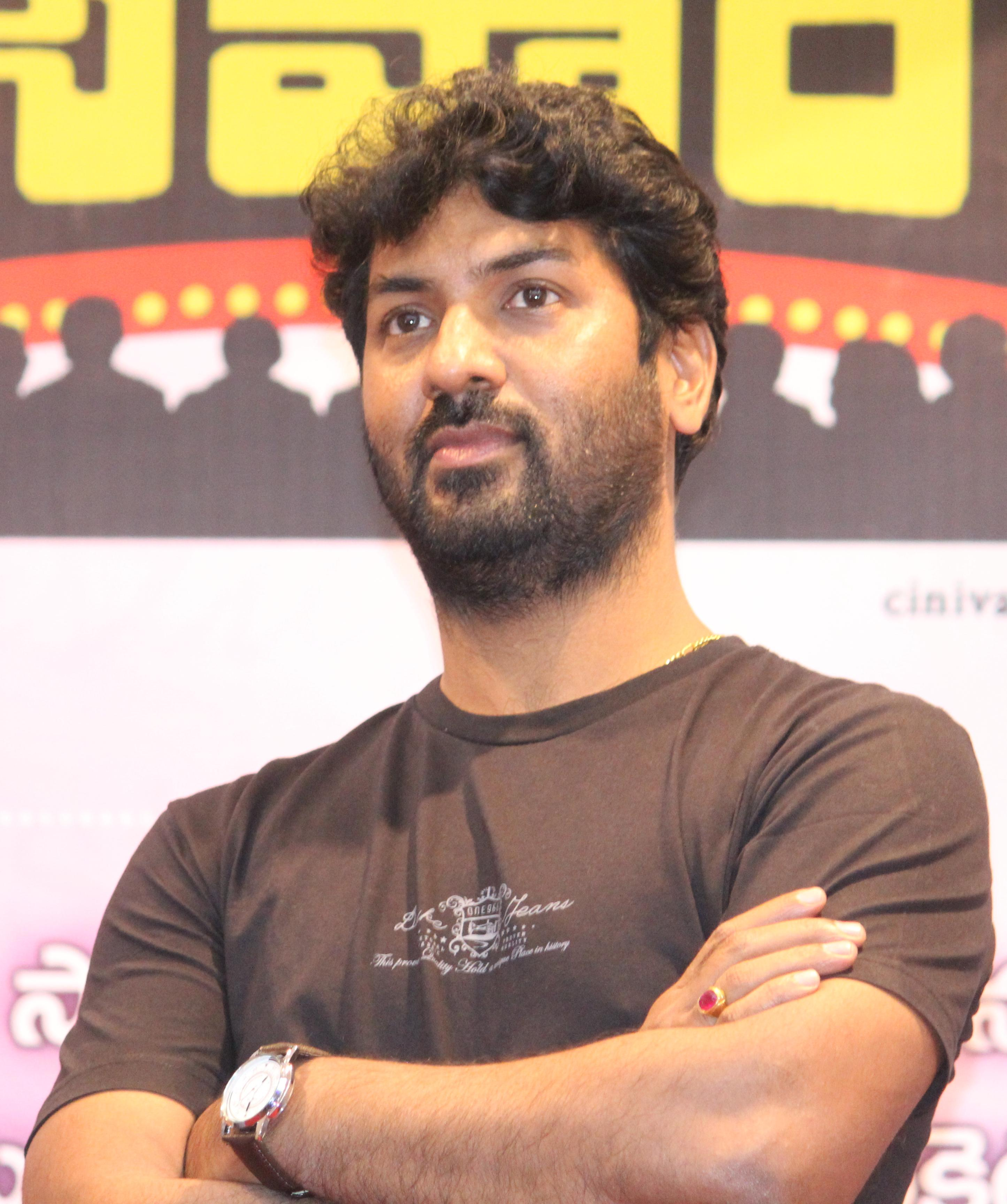 Kalyan Krishna Kurasala in Cinivaram, Ravindra Bharathi, Hyderabad